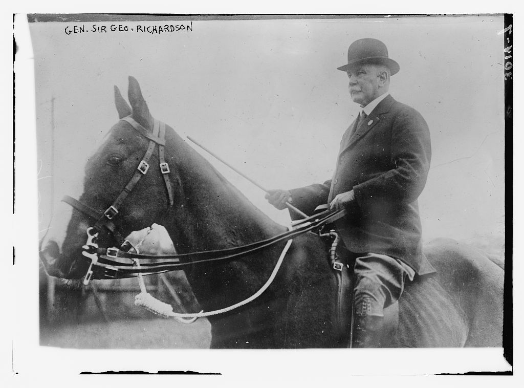 Bain News Service,, publisher. Sir George Richardson [between ca. 1910 and ca. 1915] 1 negative : glass ; 5 x 7 in. or smaller. Notes: Title from unverified data provided by the Bain News Service on the negatives or caption cards. Forms part of: George Grantham Bain Collection (Library of Congress). Format: Glass negatives. Repository: Library of Congress, Prints and Photographs Division, Washington, D.C. 20540 USA, General information about the Bain Collection is available at Persistent URL: Call Number: LC-B2- 3014-7